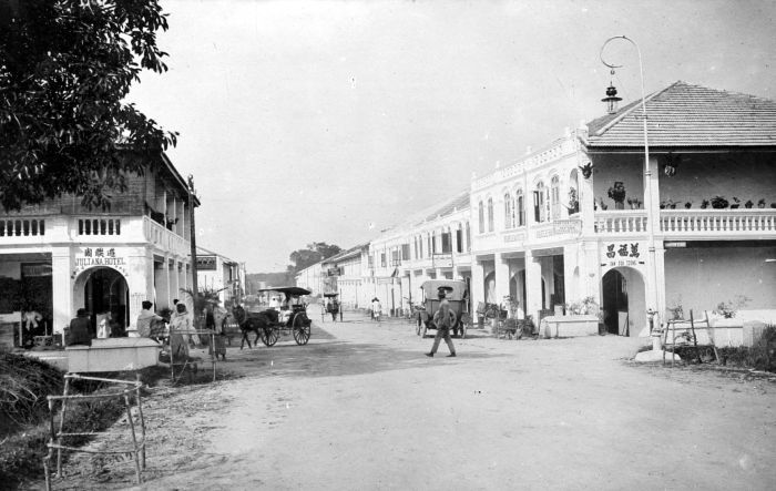 Street view with the Juliana Hotel, Pematangsiantar